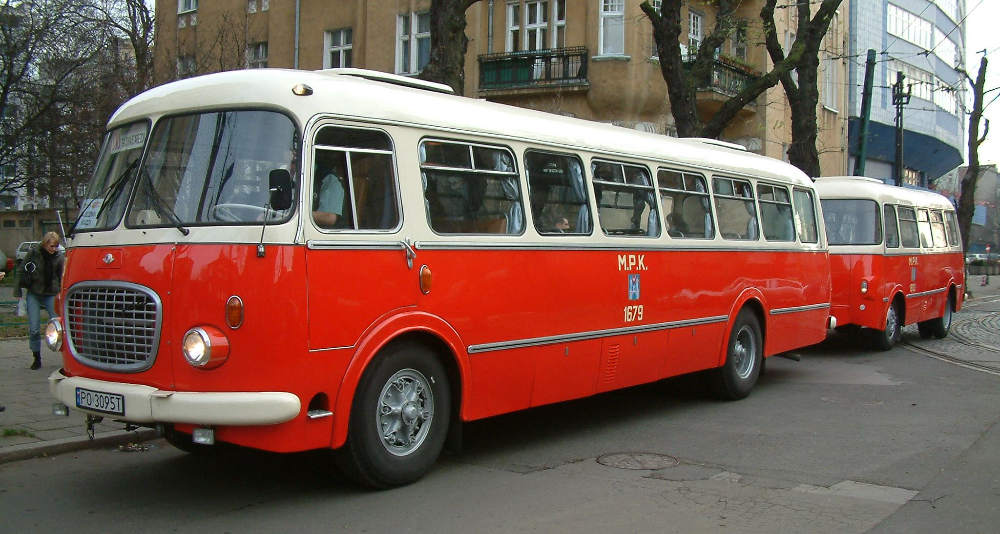 Jelcz O43 bus (#1679, built 1985) and bus trailer Jelcz P01 (#1813, built 1972) in Poznań, Poland. MPK Poznań operator.